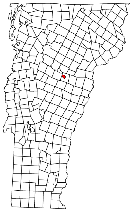 Description: Map of Vermont towns with Barre City highlighted Source: Map created by Jared C. Benedict on 26 March 2004. Copyright: © Jared C. Benedict.